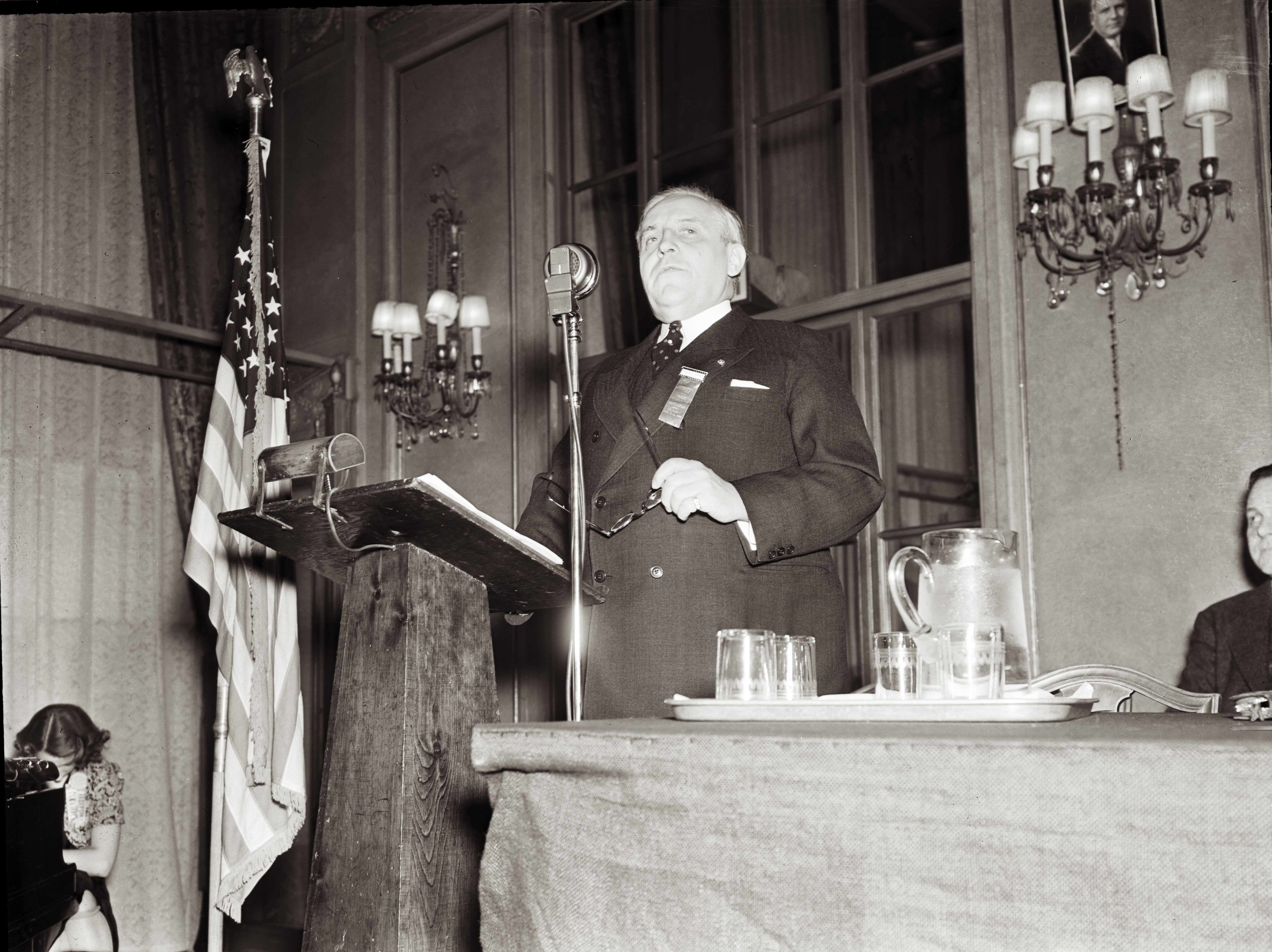 Mayor Bernard Dickmann speaking. Photograph by Richard Moore, 1939. Missouri Historical Society Photographs and Prints Collections. NS 34173. Scan © 2006, Missouri Historical Society.